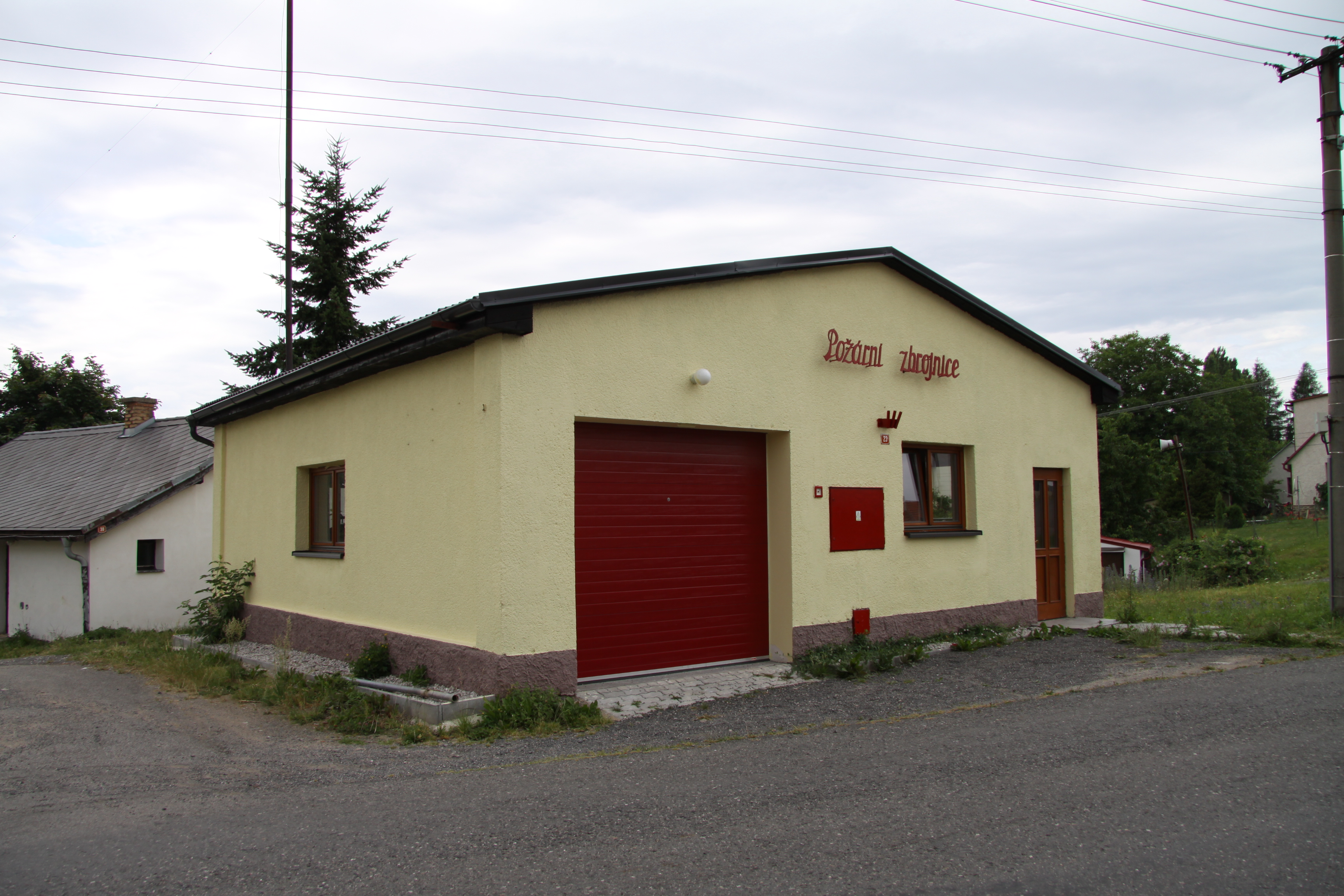 Drahlín village in Příbram District, Czech Republic.